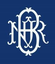 Logo of the Romanian National Bank